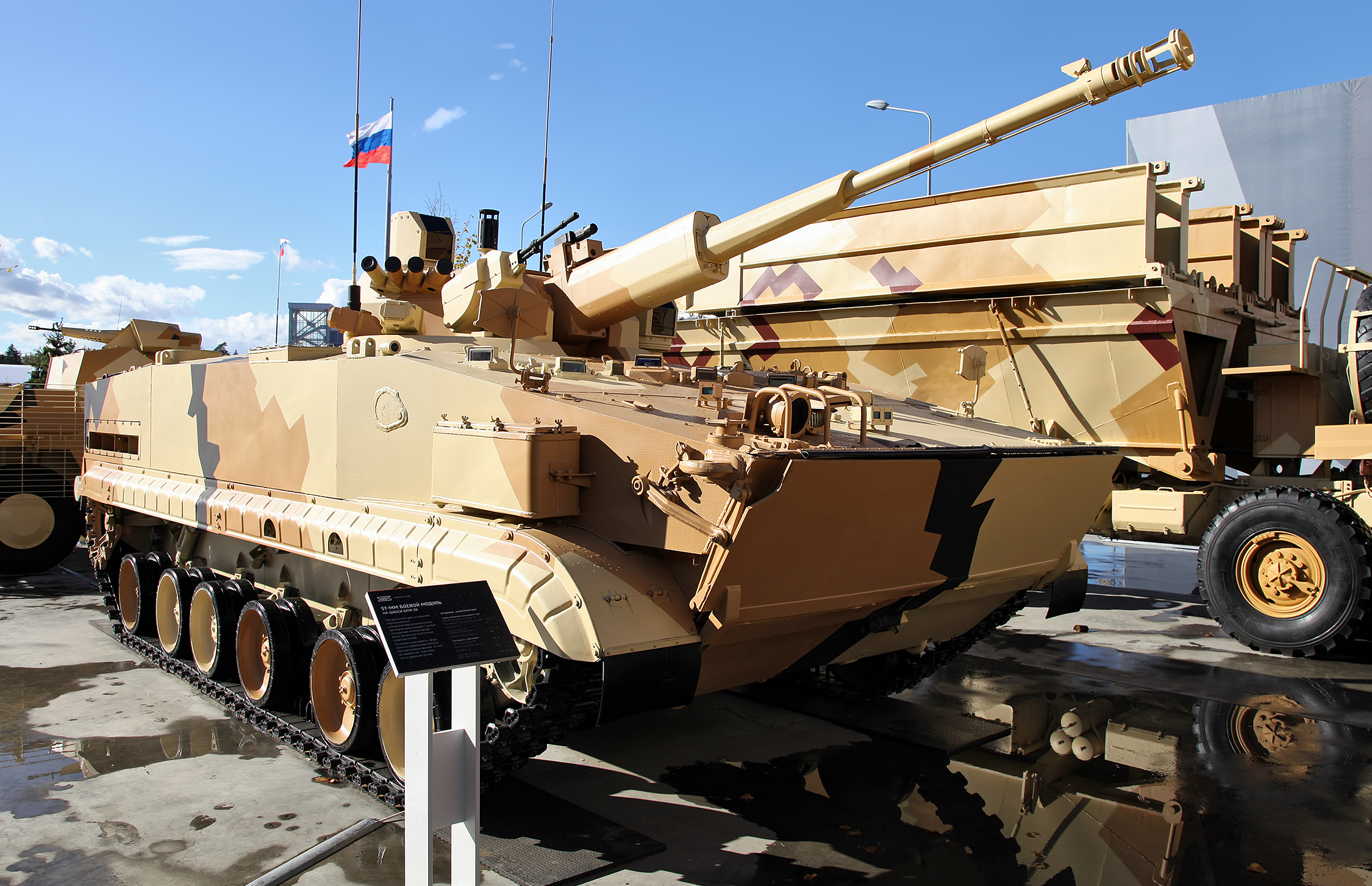 БРМ-3К с 57-мм боевым модулем АУ-220М Байкал (BRM-3K reconnaissance vehicle with 57mm AU-220M Baikal turret system)